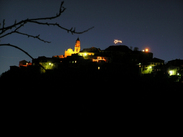 Tivegna di Notte